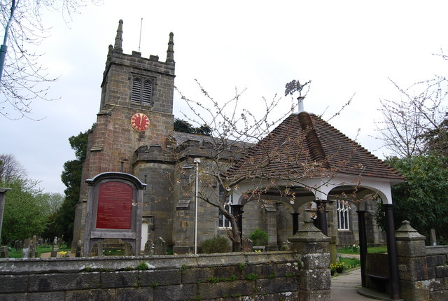 St Alban's parish church and lychgate, Frant, East Sussex